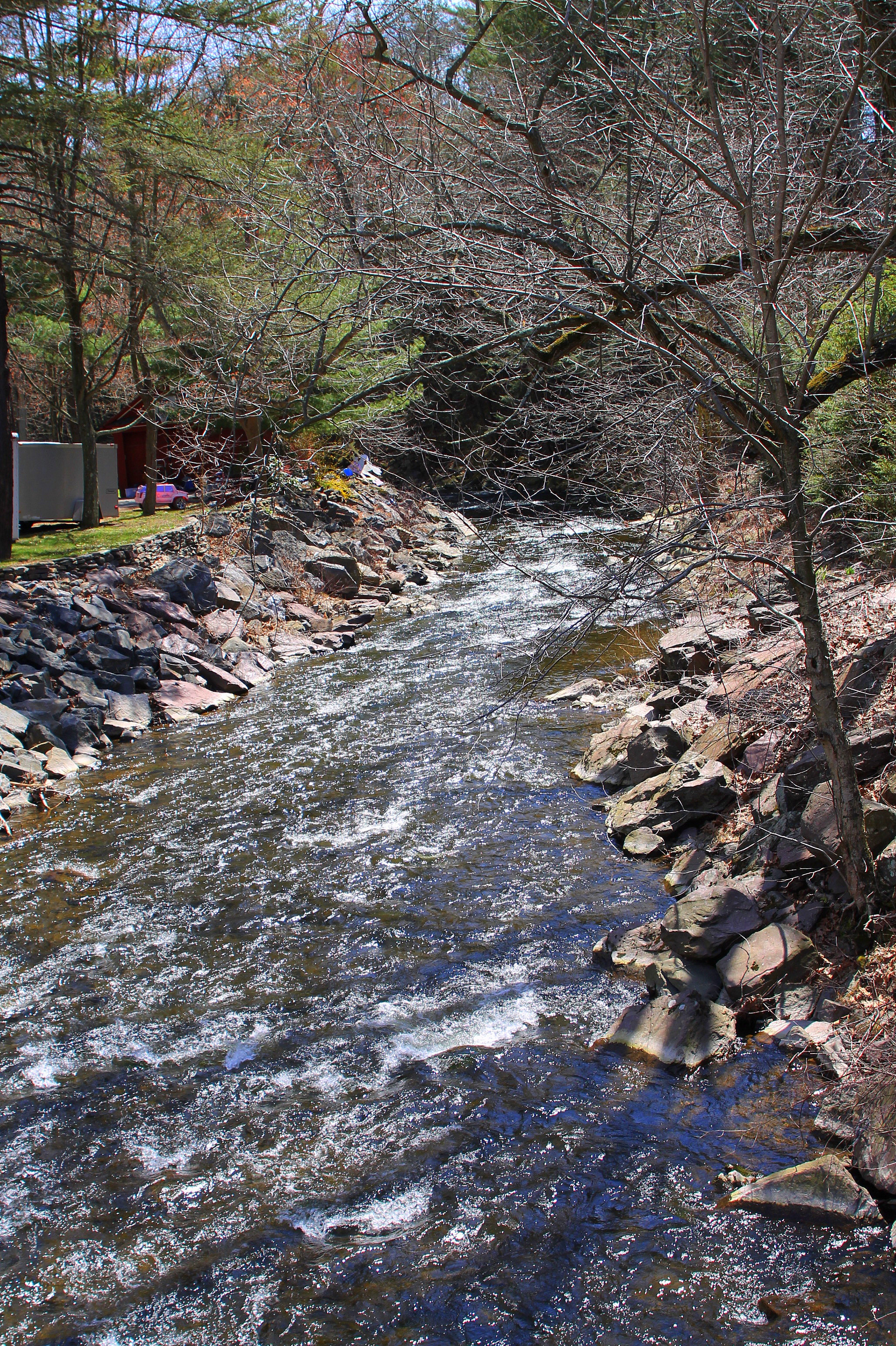 Hunlock Creek looking downstream in its lower reaches, just above some waterfalls.